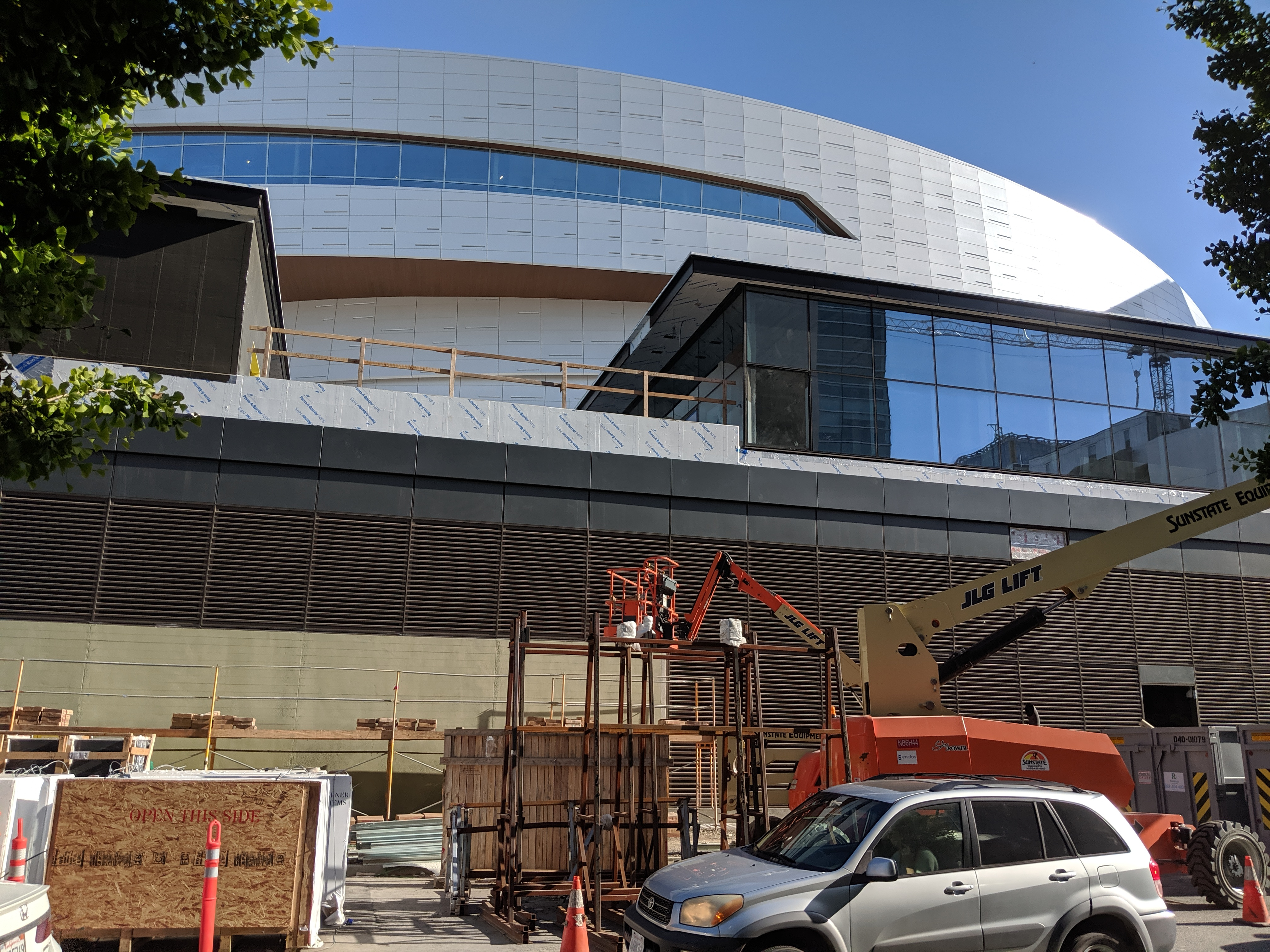 The exterior of Chase Arena in San Francisco under construction on May 23, 2019. Photo by Jim Heaphy.